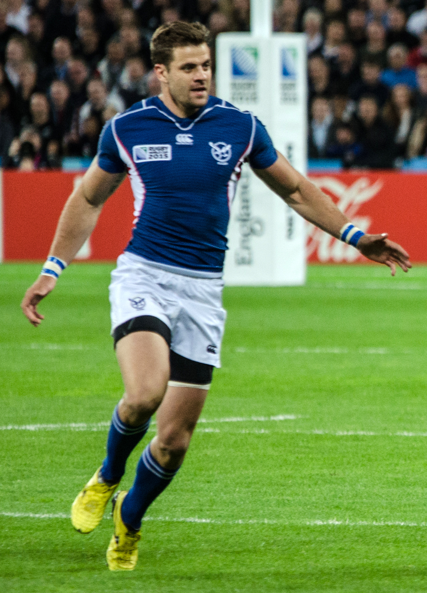 Game between New Zealand and Namibia in the 2015 Rugby World Cup at Olympic Park.